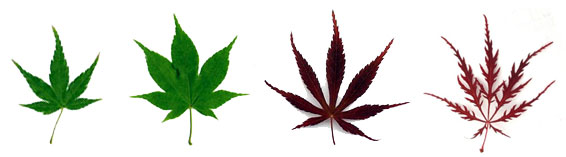 Acer palmatum cultivars - From left to right A. palmatum wild type, A. palmatum 'Amoenum', and A. palmatum 'Matsumurae' ('Dissectum' is similar to 'Matsumurae')